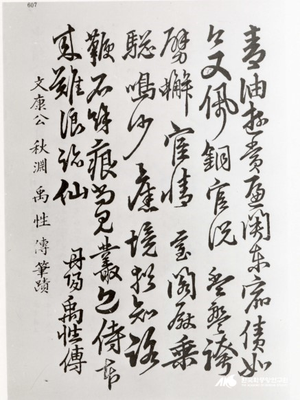 A page from a book written by U Seongjeon (1542-1593)